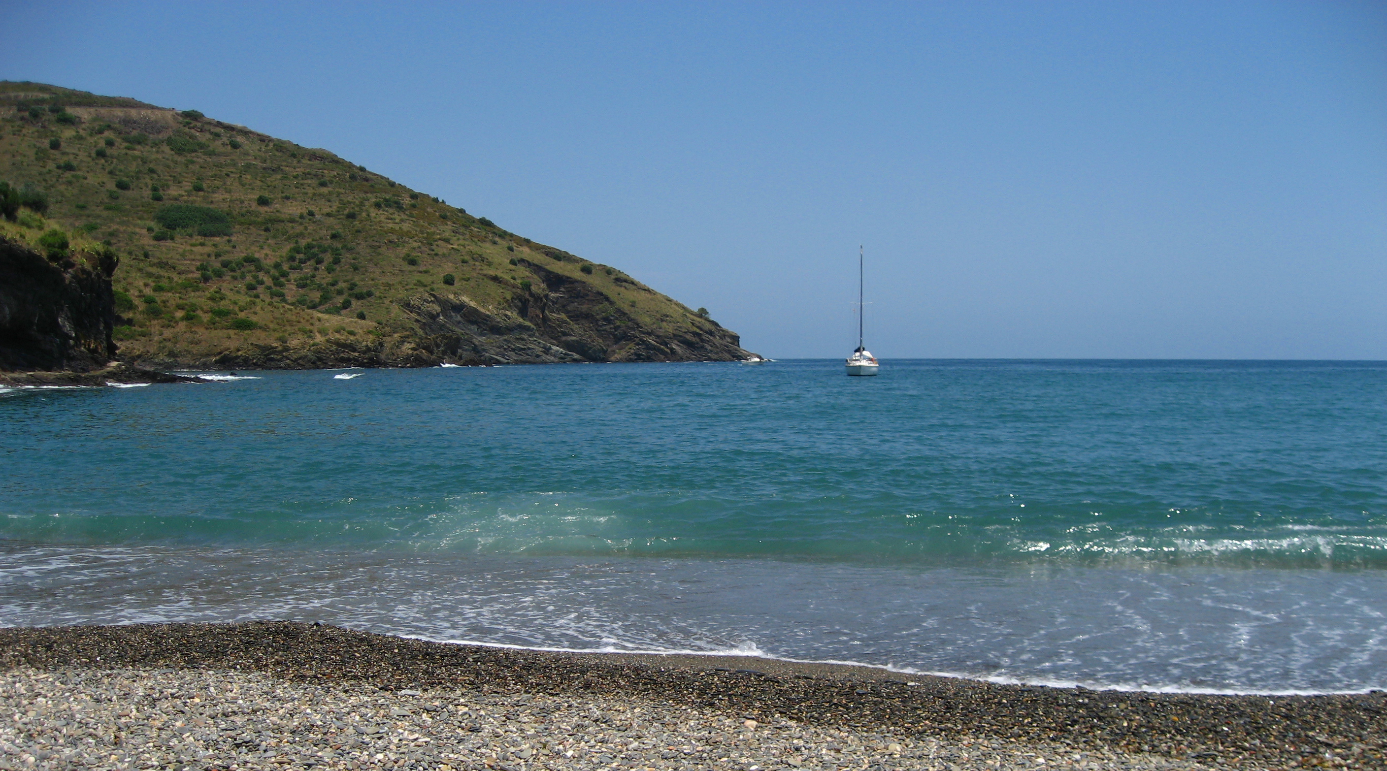 Portbou Beach/Bay